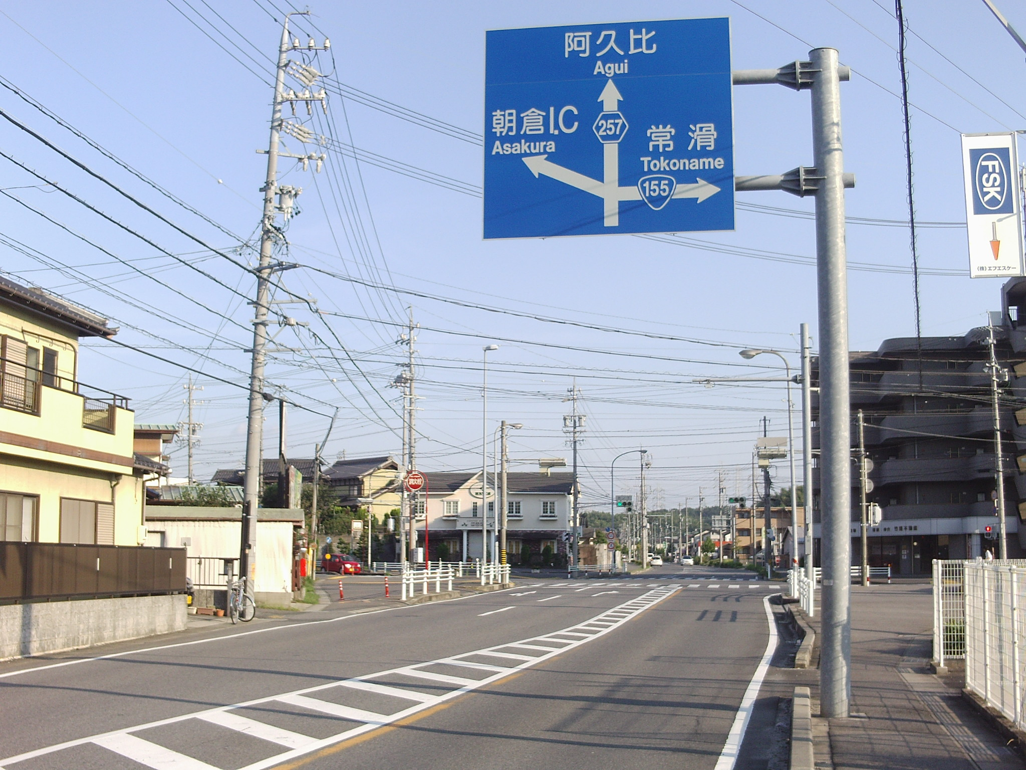 Aichi prefectural road No. in Shinchi, Chita, Aichi.